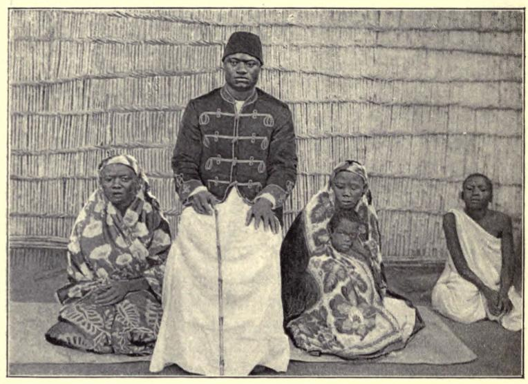 The Kattikiro (like prime minister of Buganda Kingdom) Apollo Kaggwa in 1893